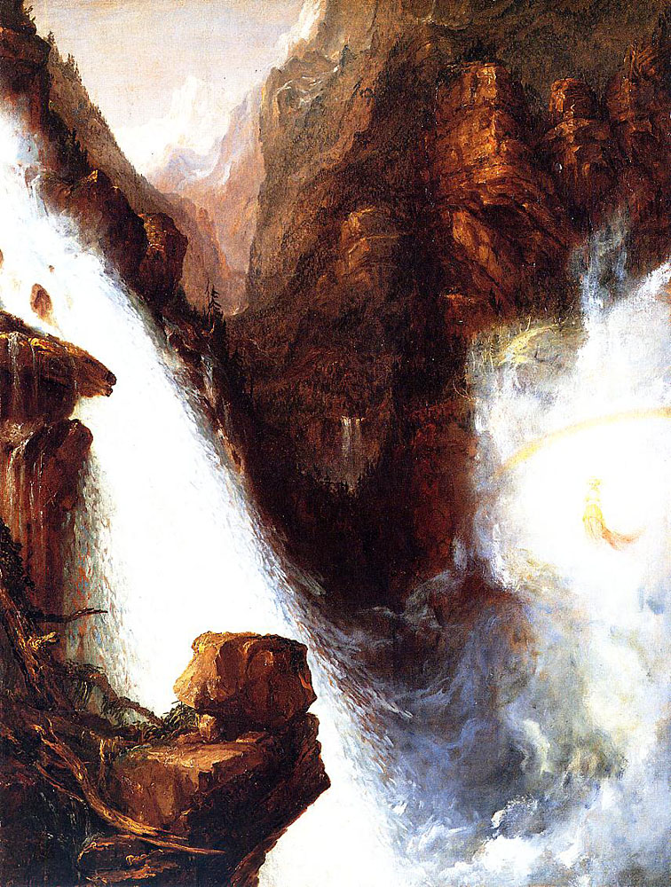 Scene From Manfred